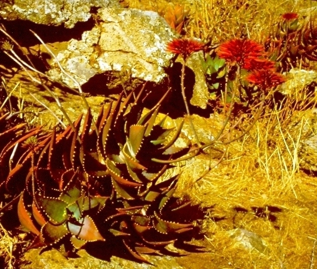 Aloe perfoliata. Western Cape. SA